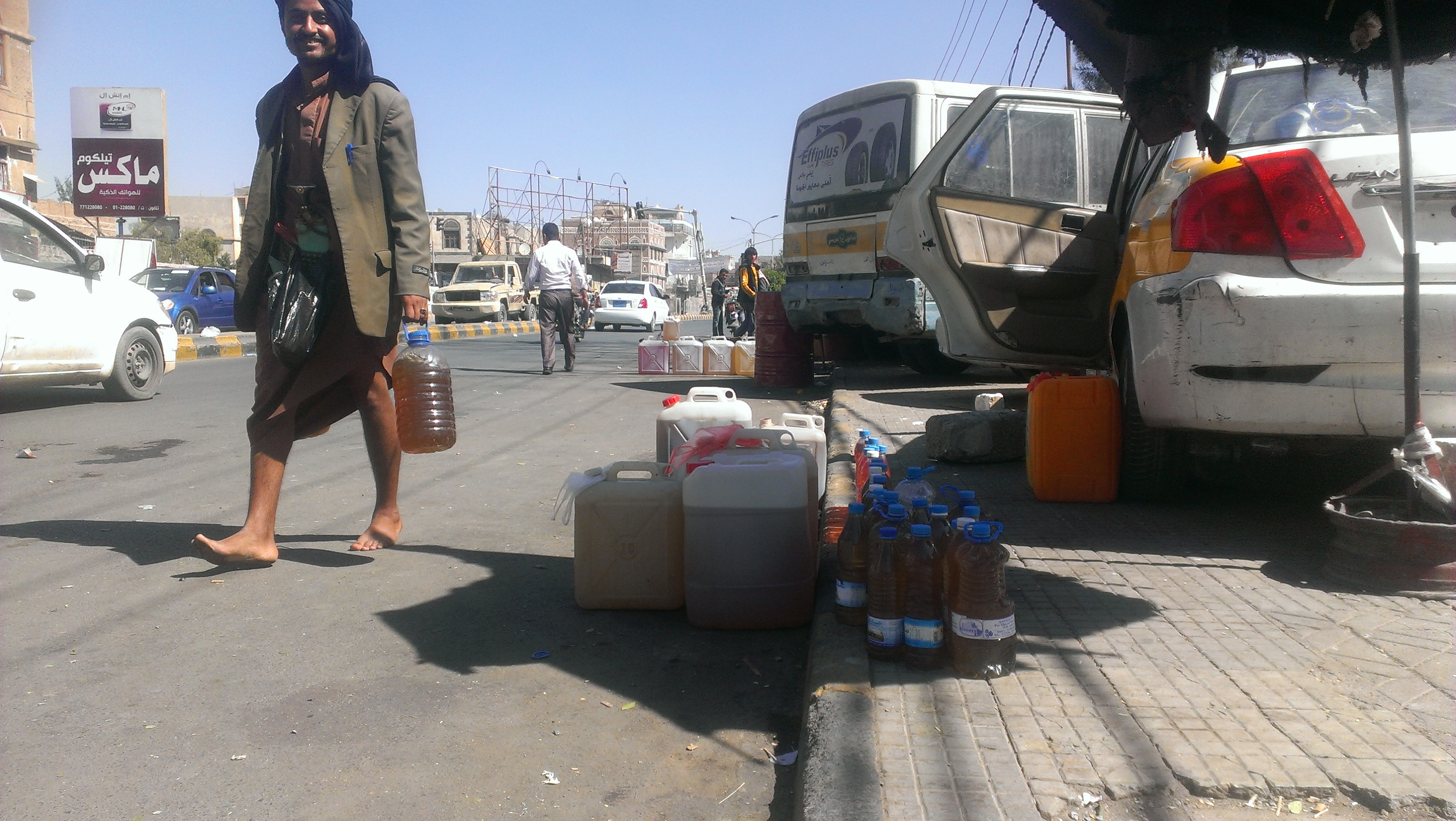 Original description: "Expensive black market fuel—often the only that’s available for Yemeni’s have driven many hospitals and small enterprises out of business in Sana’a, Yemen."